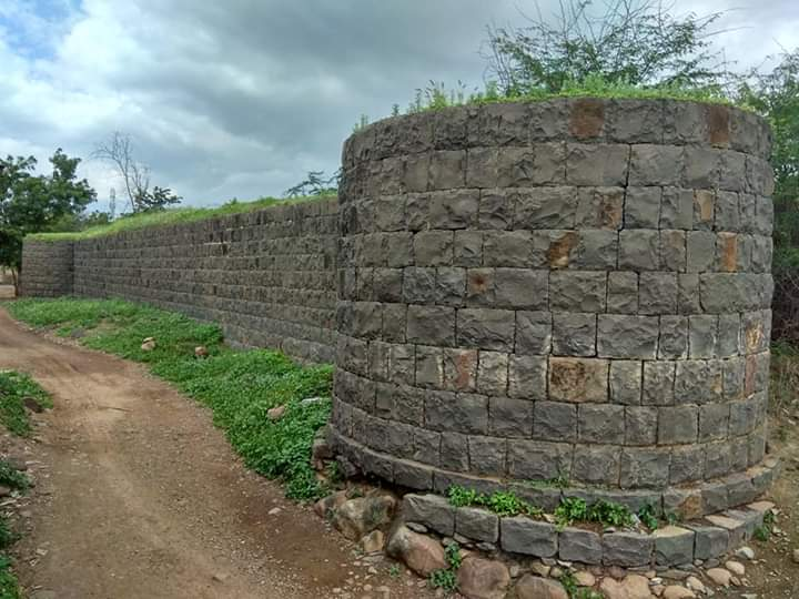 थोरात घराण्याची ऐतिहासिक गढी.